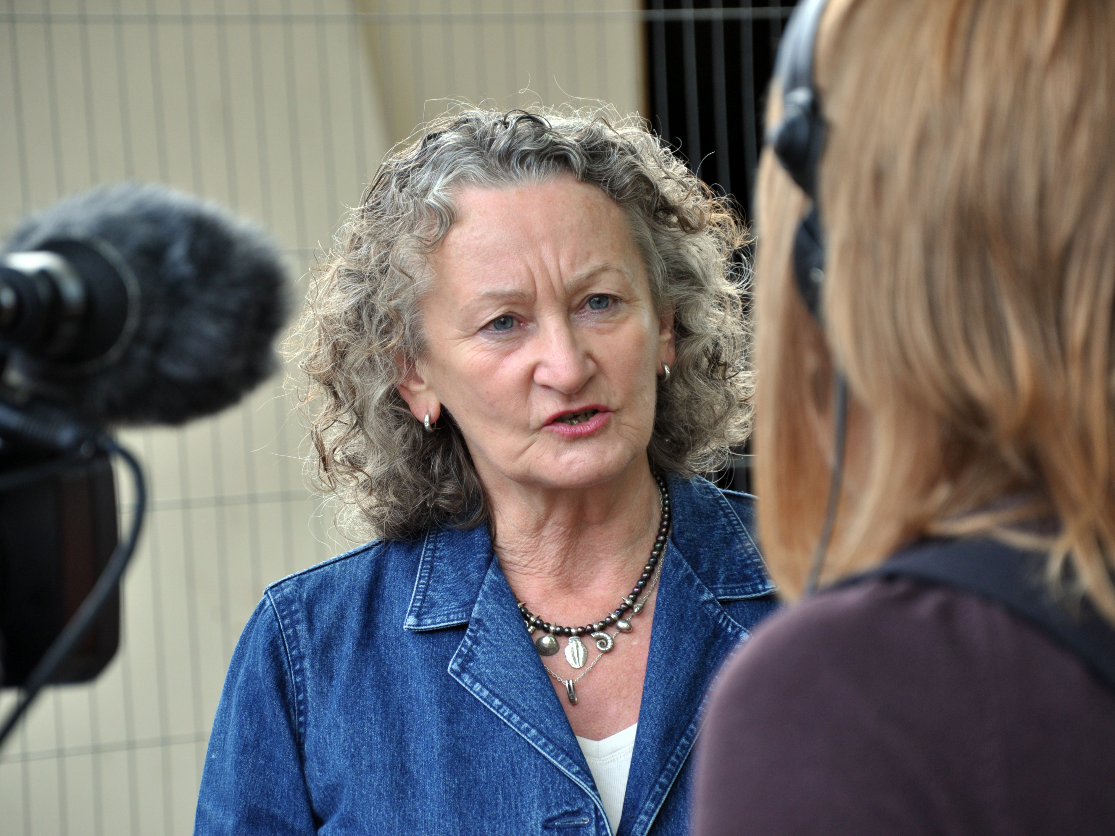 Jenny Jones being interviewed in Norwich.